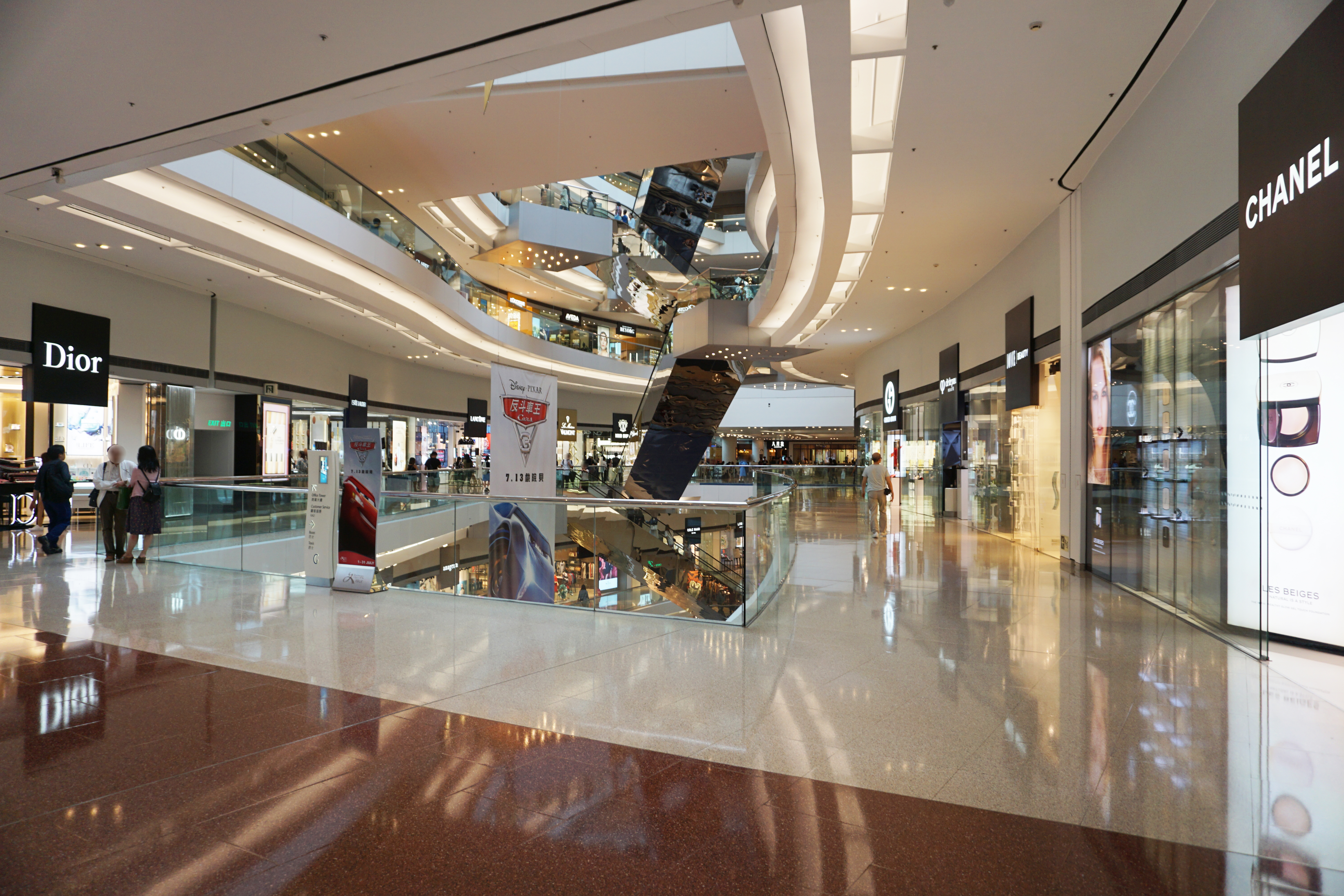 Festival Walk in Kowloon Tong, Hong Kong.